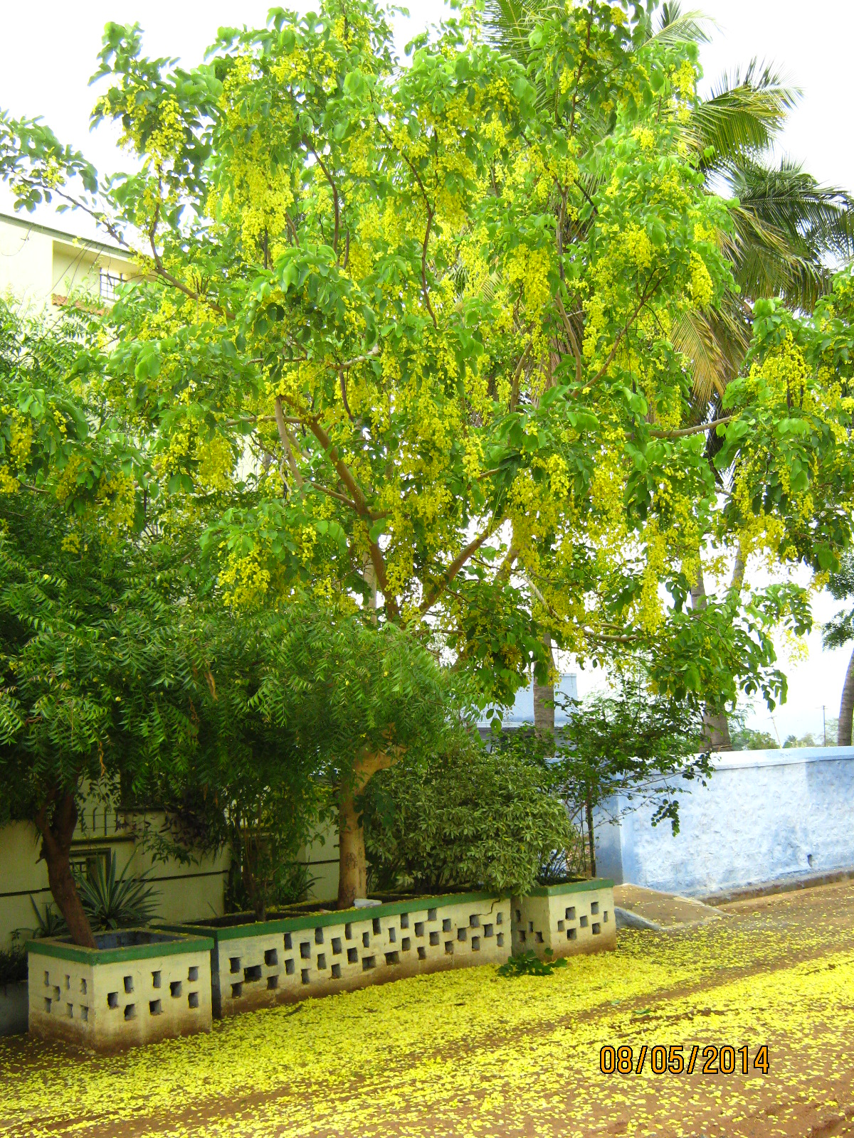 Golden shower tree at full bloom at Udumalpet,India.